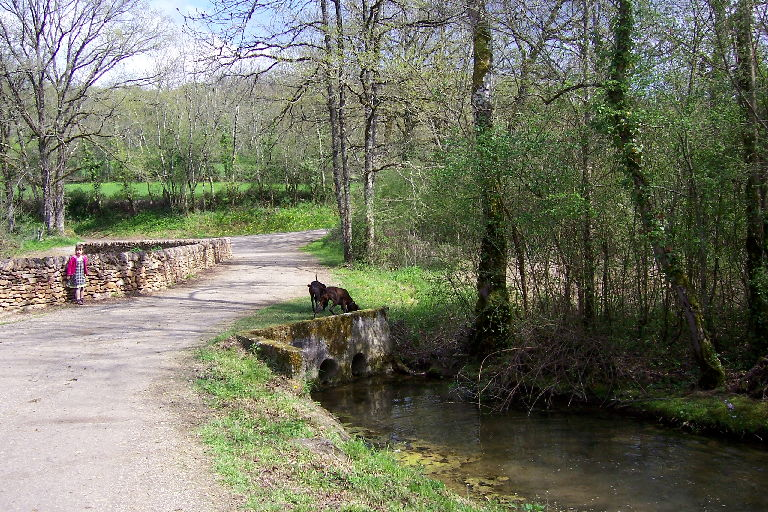 Stream of town Sonac near small pond. In Lot department in France.